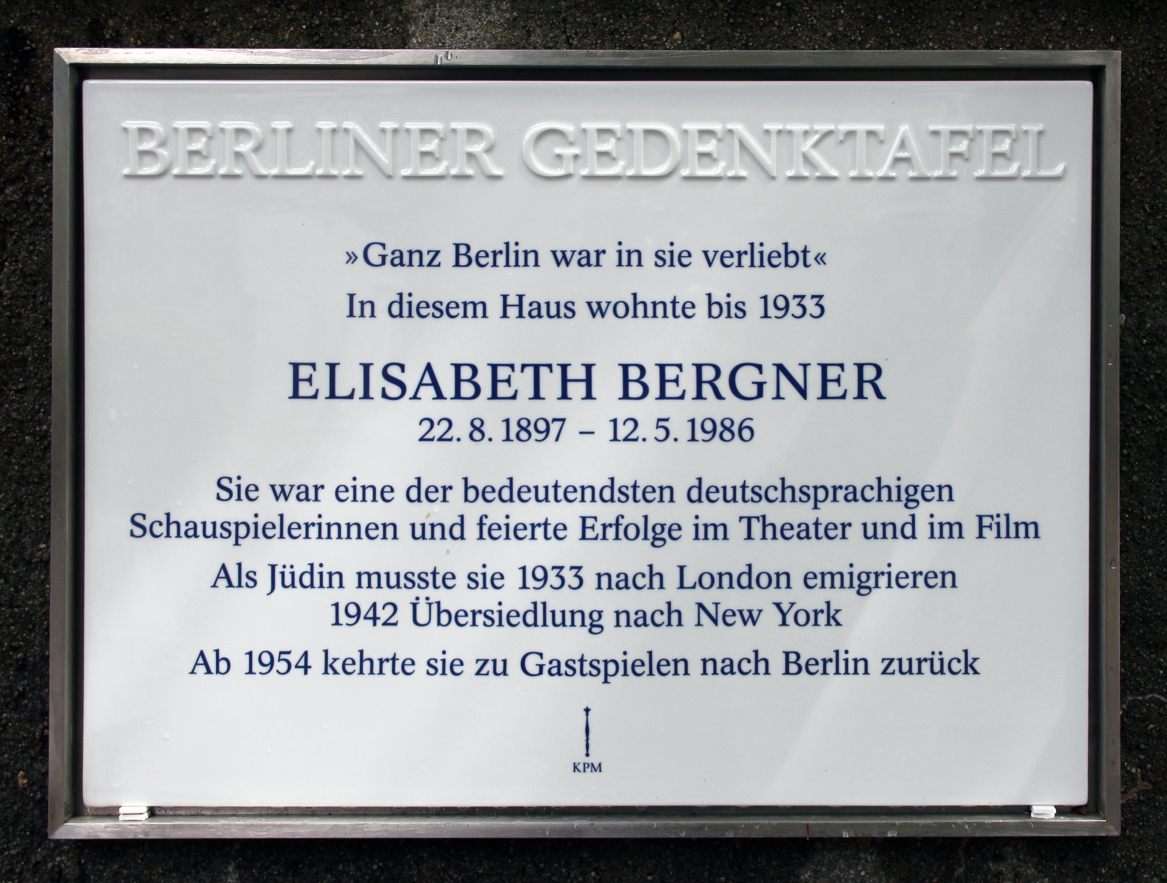 Berlin memorial plaque, Elisabeth Bergner, Faradayweg 15, Berlin-Dahlem, Germany